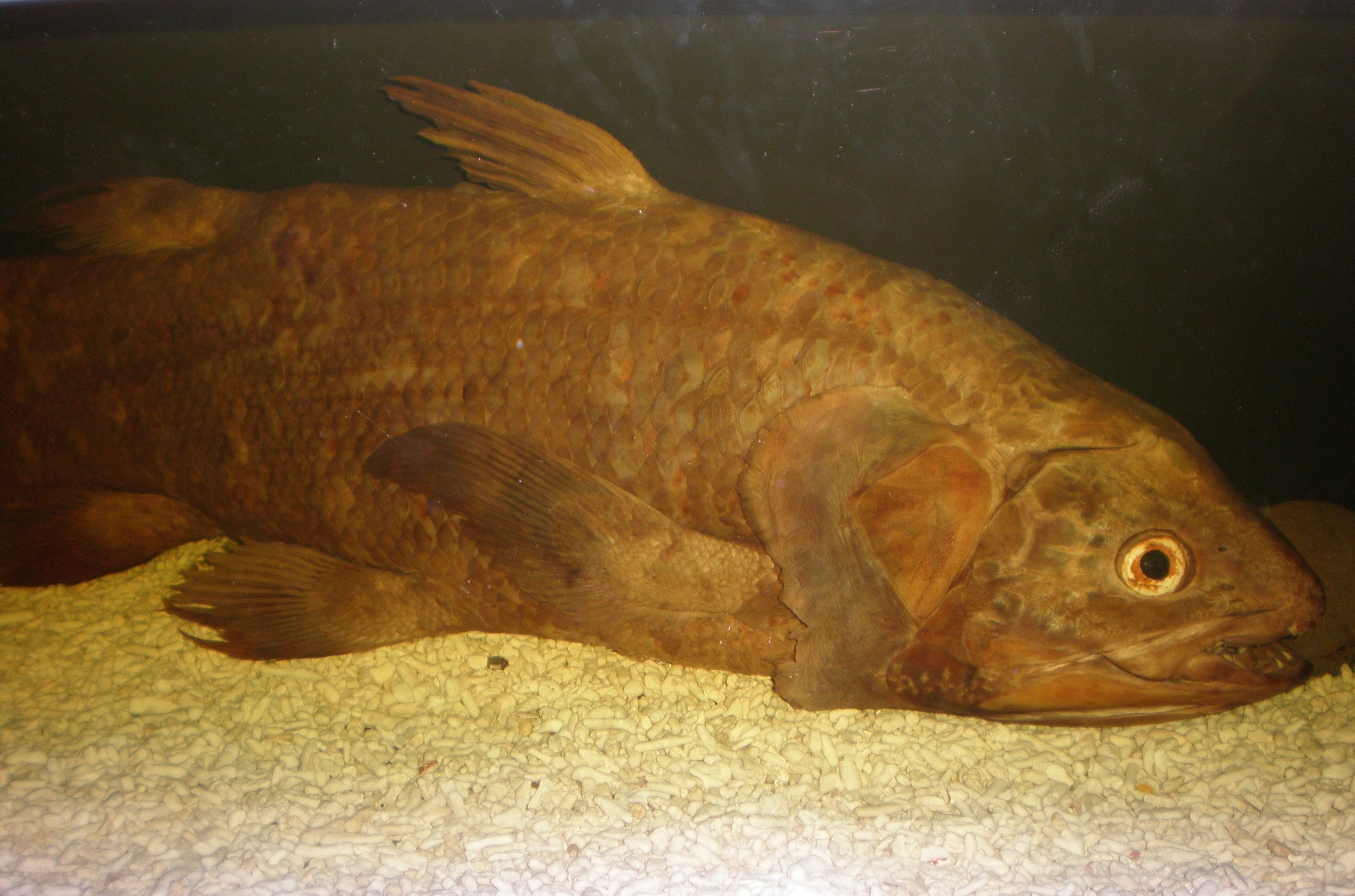 A preserved (Latimeria chalumnae) at the Steinhart Aquarium of the California Academy of Sciences in San Francisco.